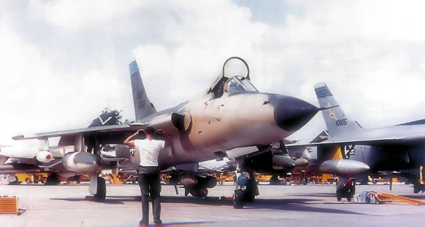 F-105s from the 36th TFS at Takhli Royal Thai Air Force Base, Thailand.